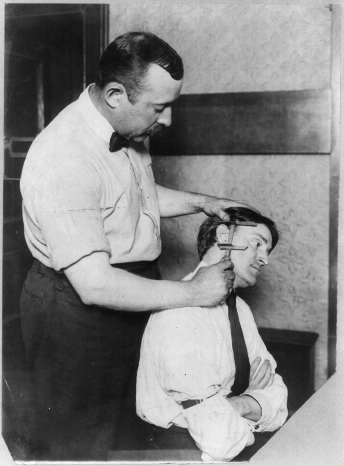 Title: New York City Police Dept. activities: taking Bertillon measurements--ear Abstract/medium: 1 photographic print.